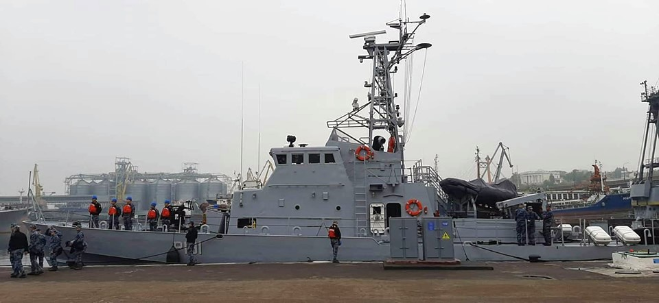 P191 Starobilsk in Odessa.